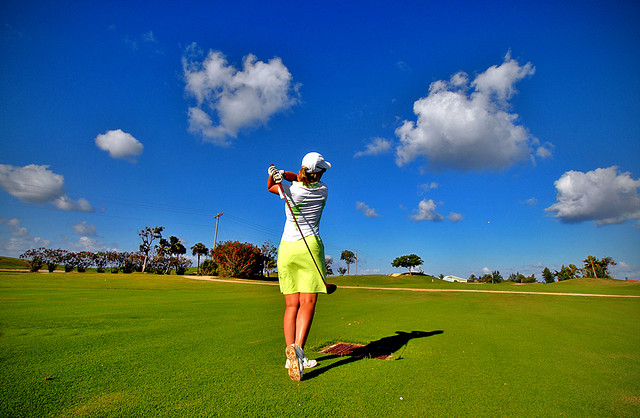 An amateur player performing a textbook follow through